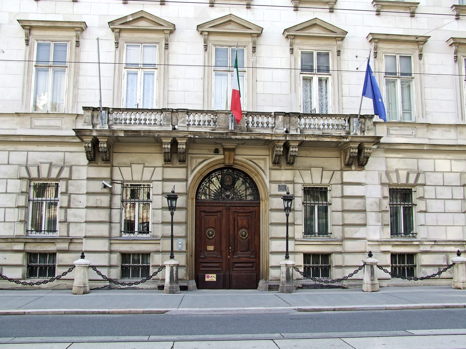 Palais Metternich located at Rennweg 27. Seat of the Italian embassy in Austria.